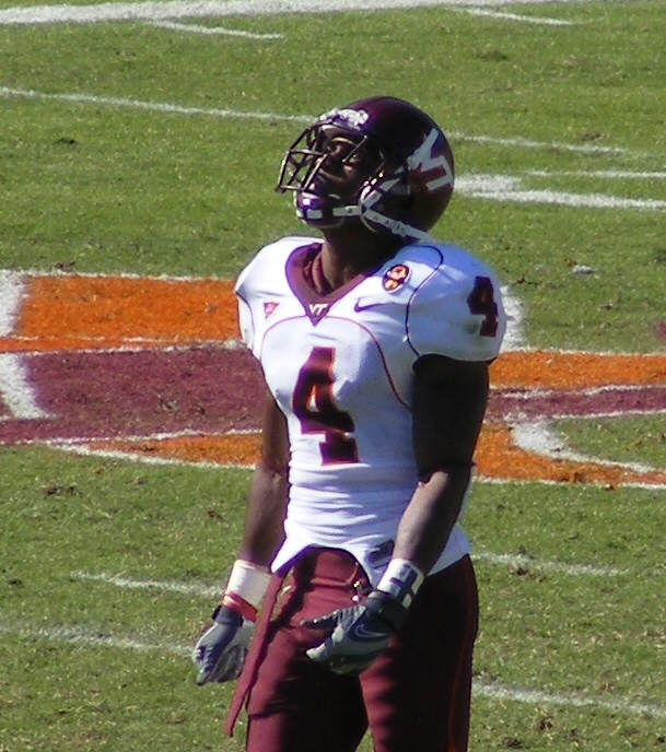 Eddie Royal, receiver for the Virginia Tech Hokies football team. This photograph was taken at Wallace Wade Stadium during Virginia Tech's 2007 game against the Duke University Blue Devils